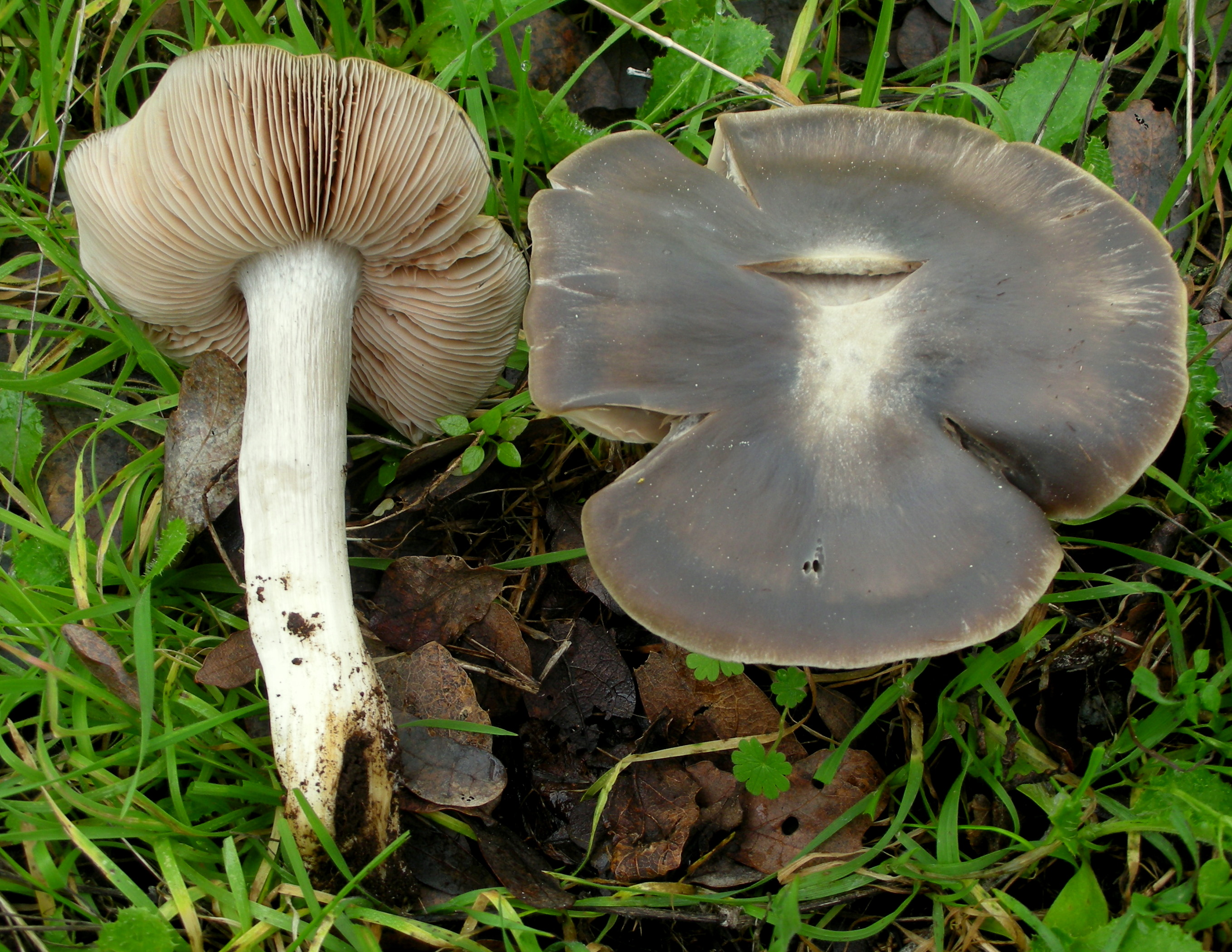 Entoloma rhodopolium group Location: Rockville Hills Regional Park, Solano Co., California, USA Observation Notes: These were growing with oaks and had caps up to 11.7 cm across.They had a slight farinaceous odor.The spores were ~ 10.0-11.0 X 7.9-9.9 microns, 5-6 sided with a sizable apical beak. For more information about this, see the observation page at Mushroom Observer.